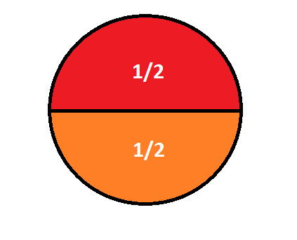 அரை (1/2)